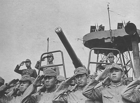 Jiangshang Army